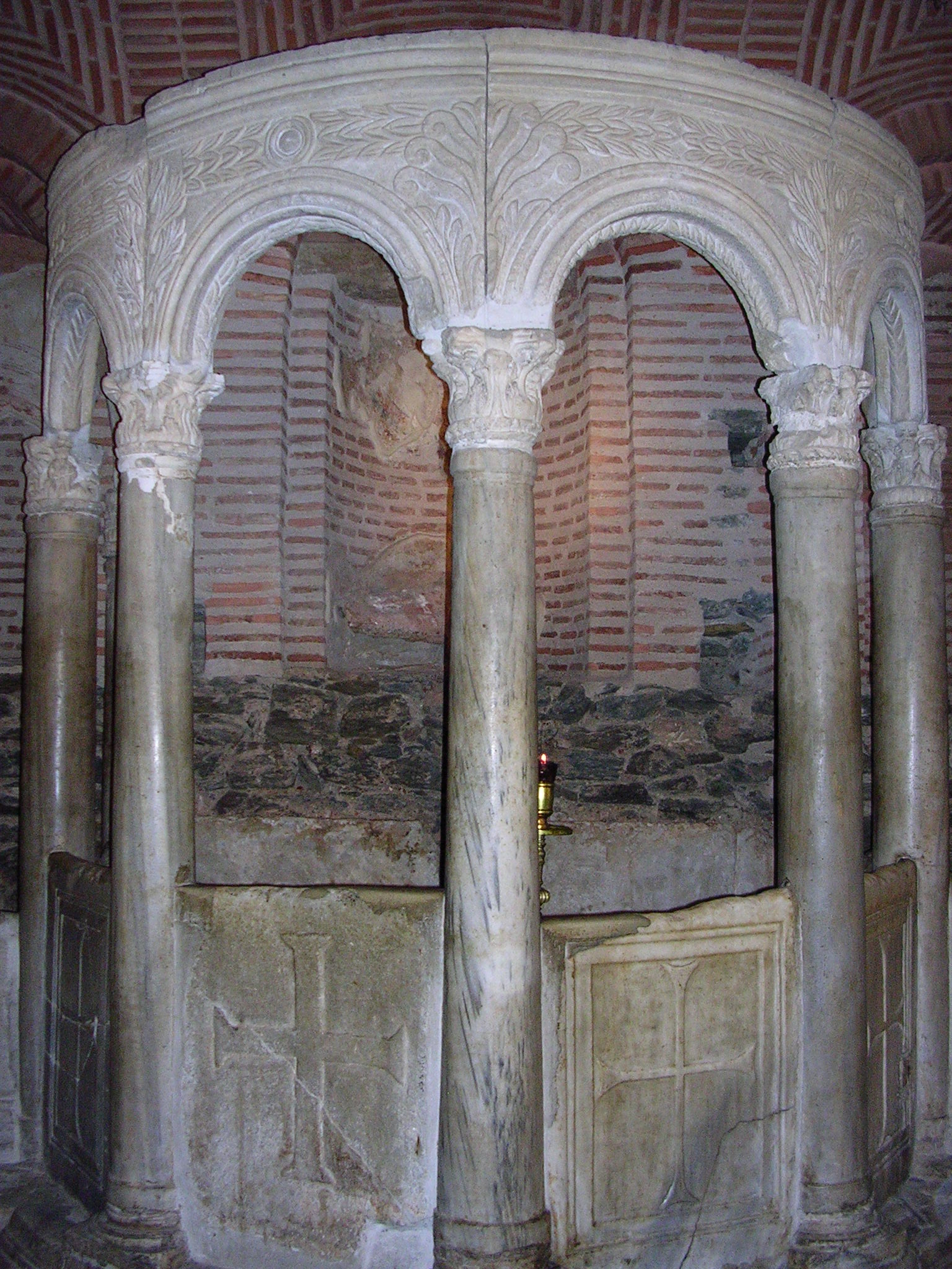 crypt of church of Saint Demetrius